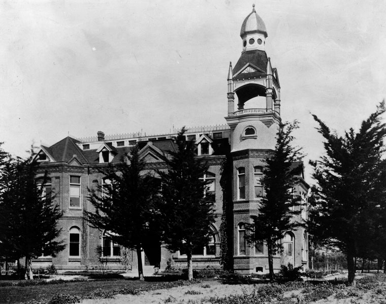 Exterior view of Maclay College of Theology after 1880, founded by Charles Maclay, founder of San Fernando and a Methodist minister. Historical Notes: He was also a Senator. One of San Fernando's original subdividers, he endowed the college with $150,000 in money and land. It was then an adjunct of the University of Southern California and later merged with it. It was sold in 1902 to a church. Eventually became the Claremont School of Theology.